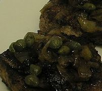 "Bløde løg", slowly roasted "soft" onions, a danish dish.